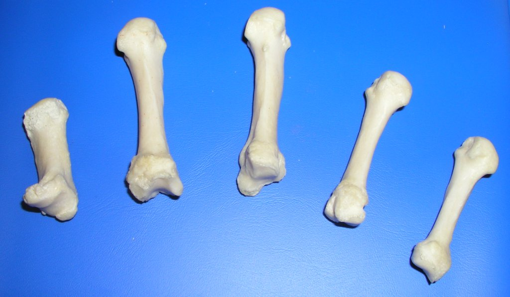 metacarpal bones, anterior view, l. sin. (left hand)